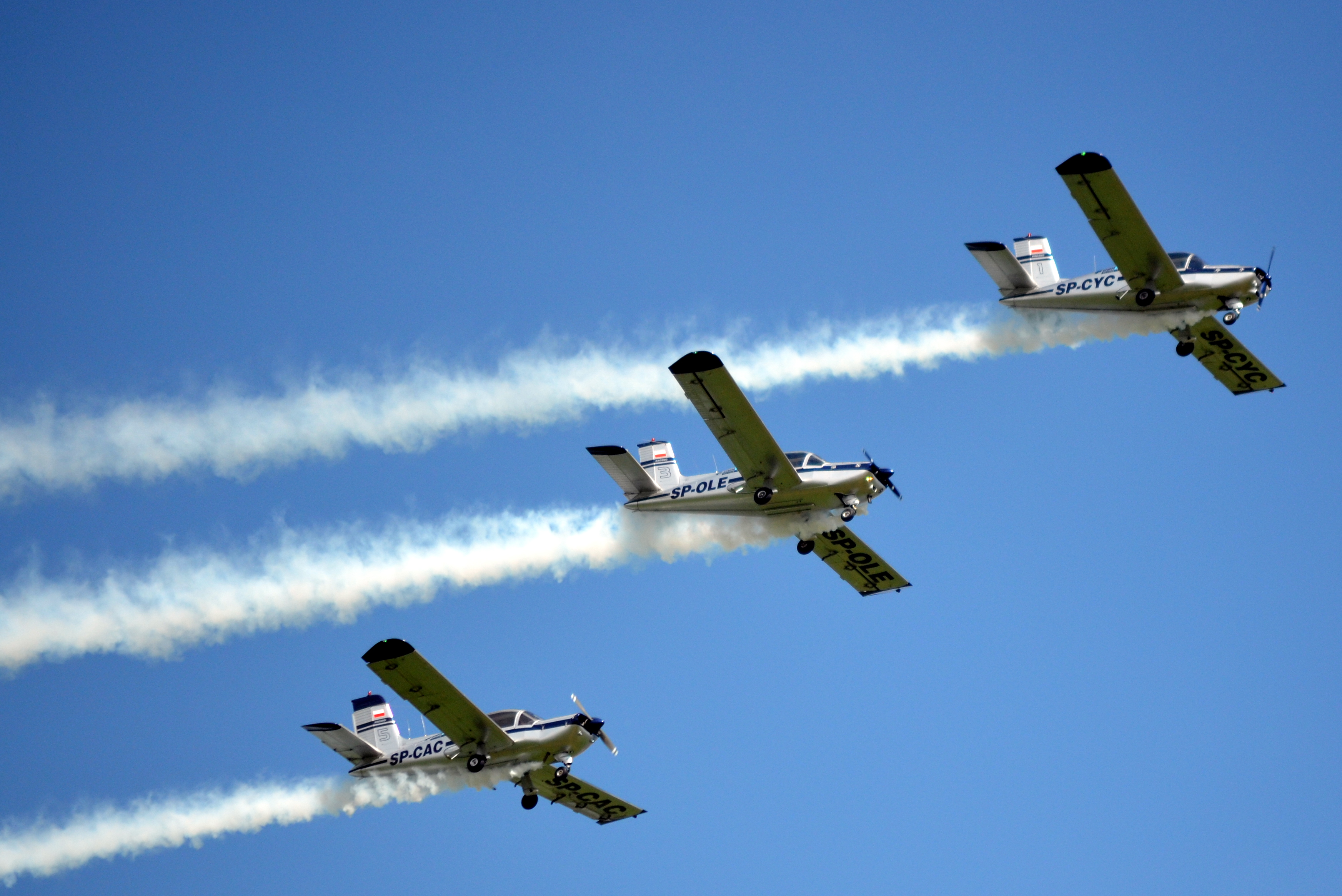 Krosno Luft Picknick 2018